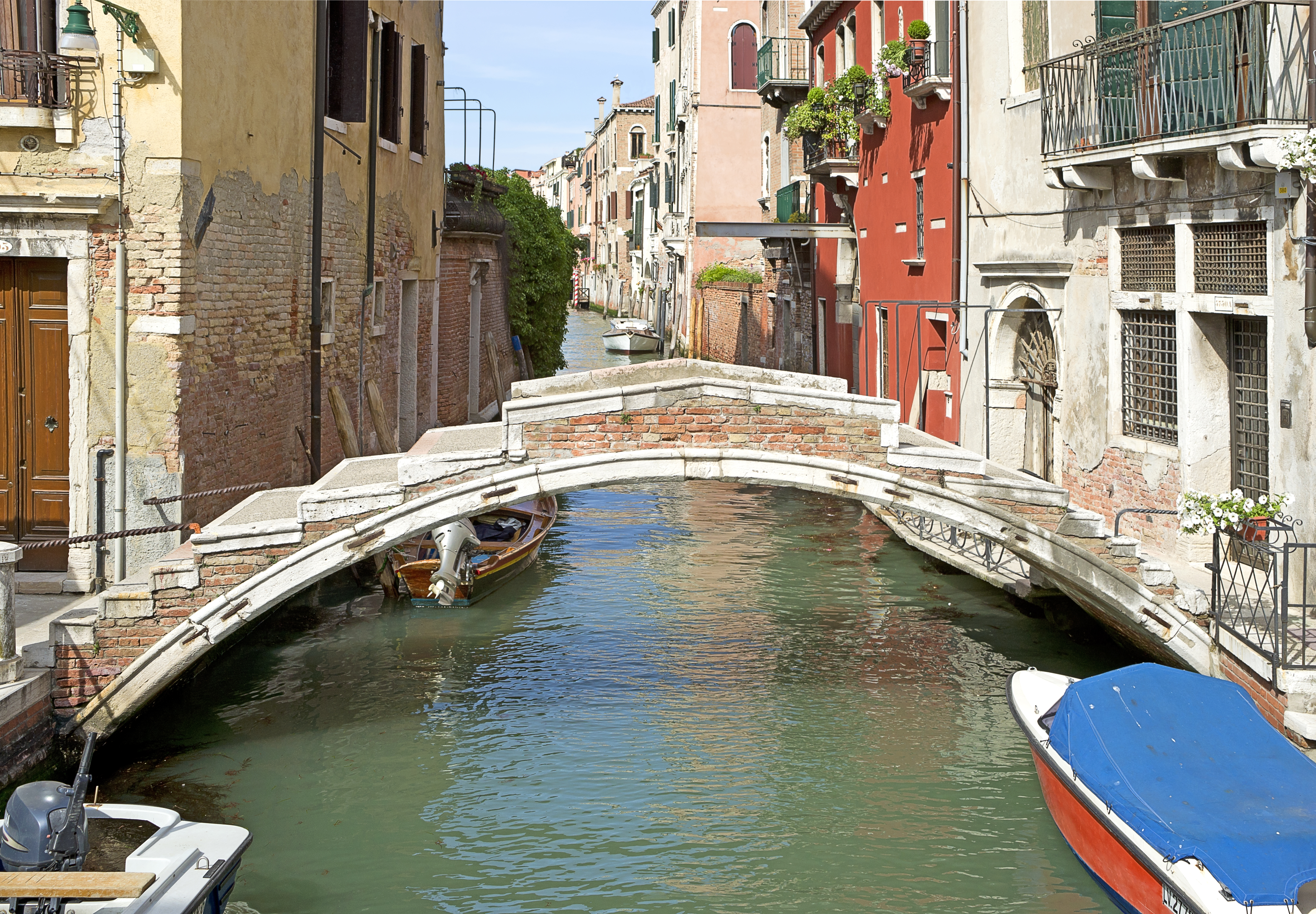 Ponte Chiodo - Rio San Felice in Venice.